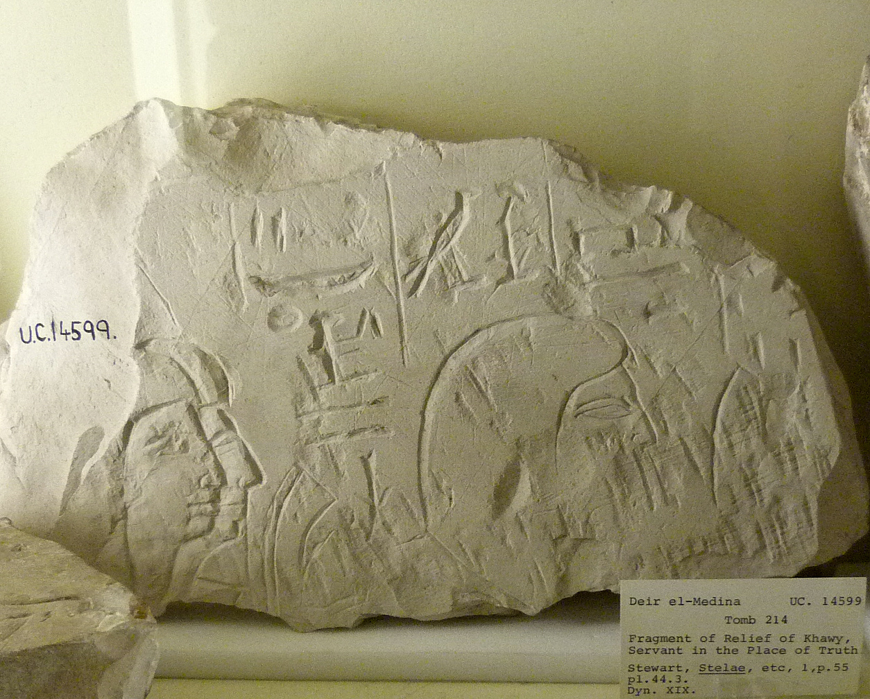 Khawy, servant in the Place of Truth, 19th Dynasty. Reign of Ramses II. Deir el-Medina. Petrie Museum. London.